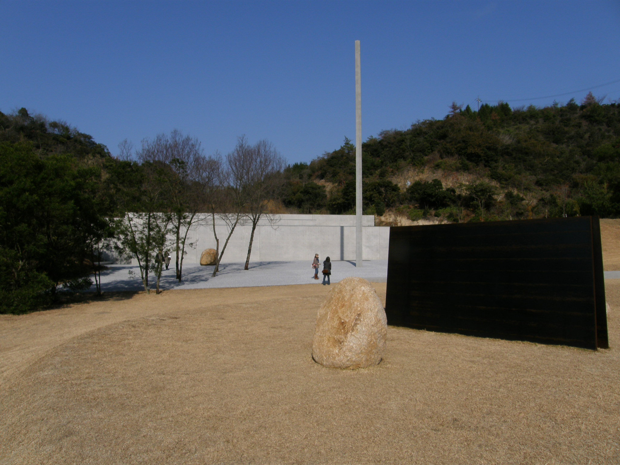 Lee Ufan Museum sculpture courtyard. Contemporary art museum in Kagawa prefecture, Japan. Collaborative work of Tadao Ando and Lee U-Fan.